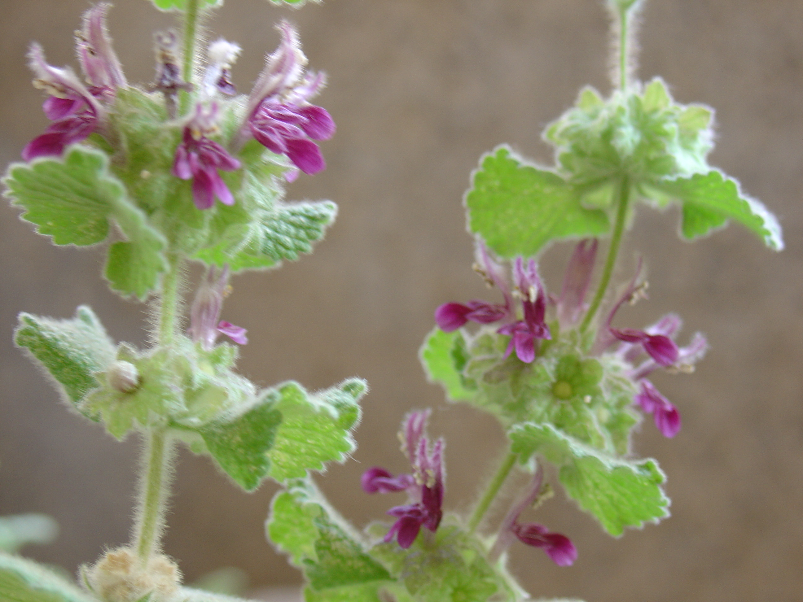 Ballota hirsuta flowers.